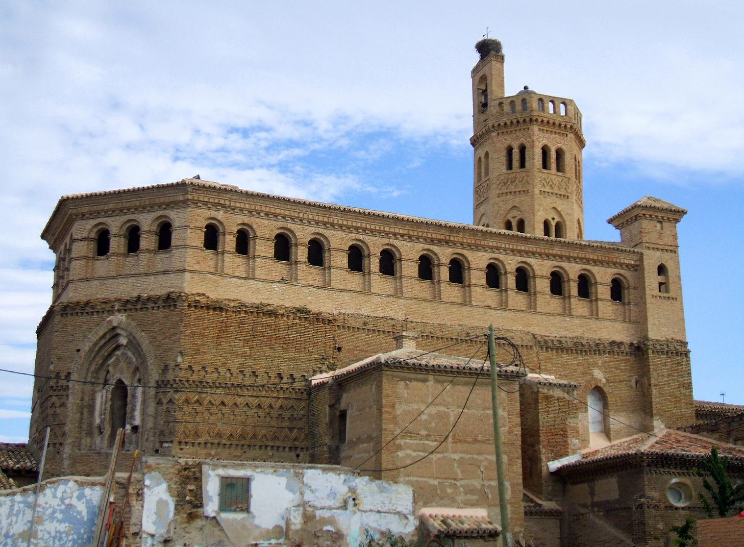 Iglesia de San Pedro Apóstol, Alagón (Zaragoza, Aragón, España)